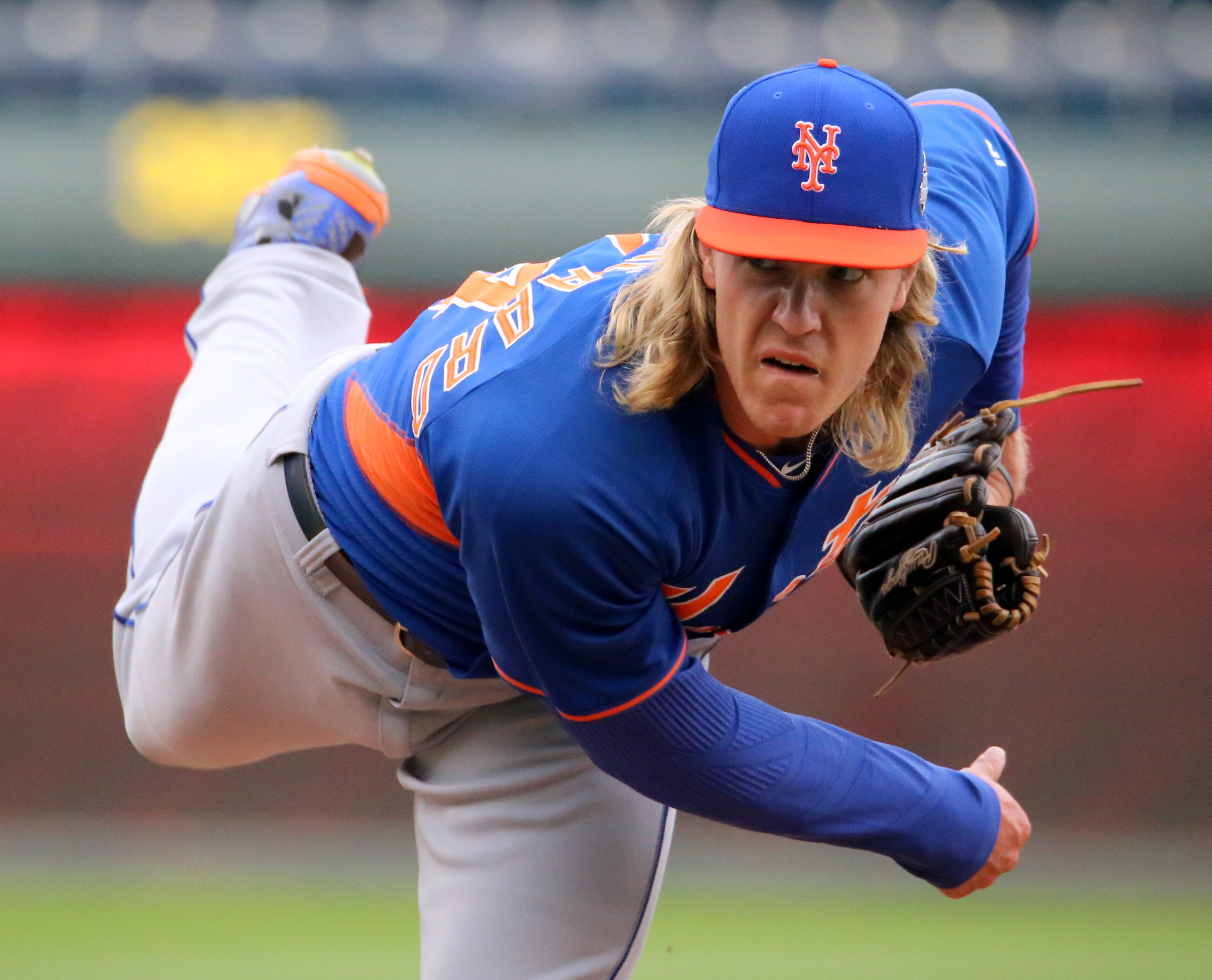 Noah Syndergaard throws live batting practice on #WSMediaDay.